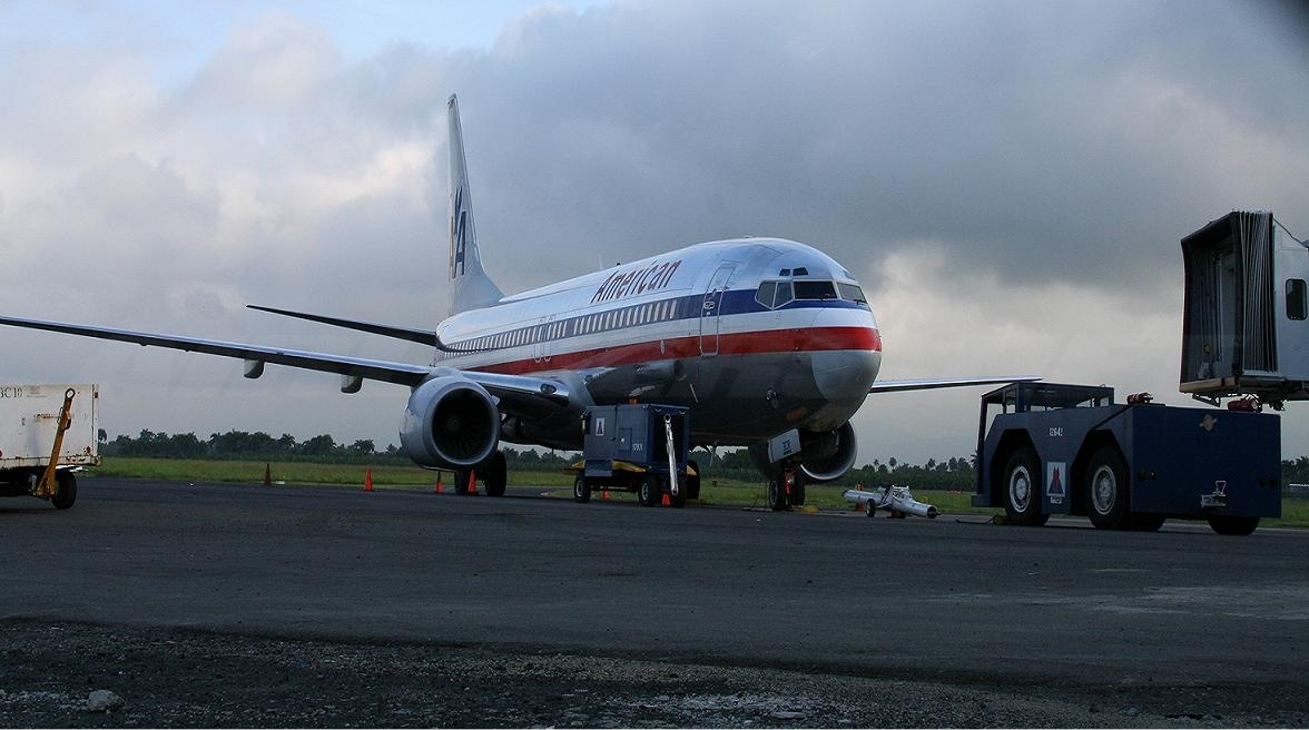 American Airlines Boeing 737-800 (AAL738 to KMIA) at gate B6.